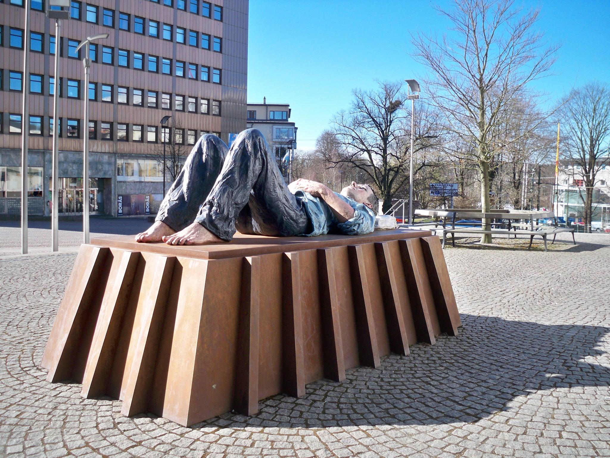 Outside the entrance of the university library building in Borås, Sweden, is this painted bronze sculpture called Catafalque (2003) by the British sculptor Sean Henry (* 1965).